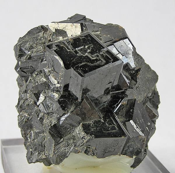 Andradite (Var.: Melanite) Locality: Ojos Espanoles Mine, General Lázaro Cárdenas (Lázaro Cárdenas; Colonia Lázaro Cárdenas), Municipio de Julimes, Chihuahua, Mexico (Locality at ) Size: 4.9 x 4.3 x 3.9 cm. A cluster of lustrous and large andradite garnets (this variety is sometimes called "melanite") from Mexico. The garnets measure up to 2.2 cm across. There is contact on the back and sides but the specimen presents an impressive display face.